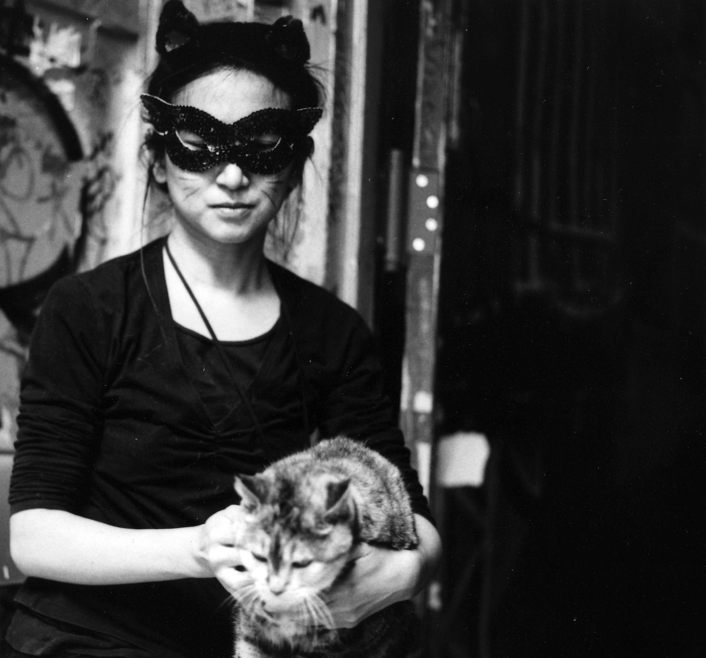 Photo of Victoria Law at ABC No Rio's Halloween open house in 2011 (or 2010 or 2012), taken by a random punk who was watching the door.